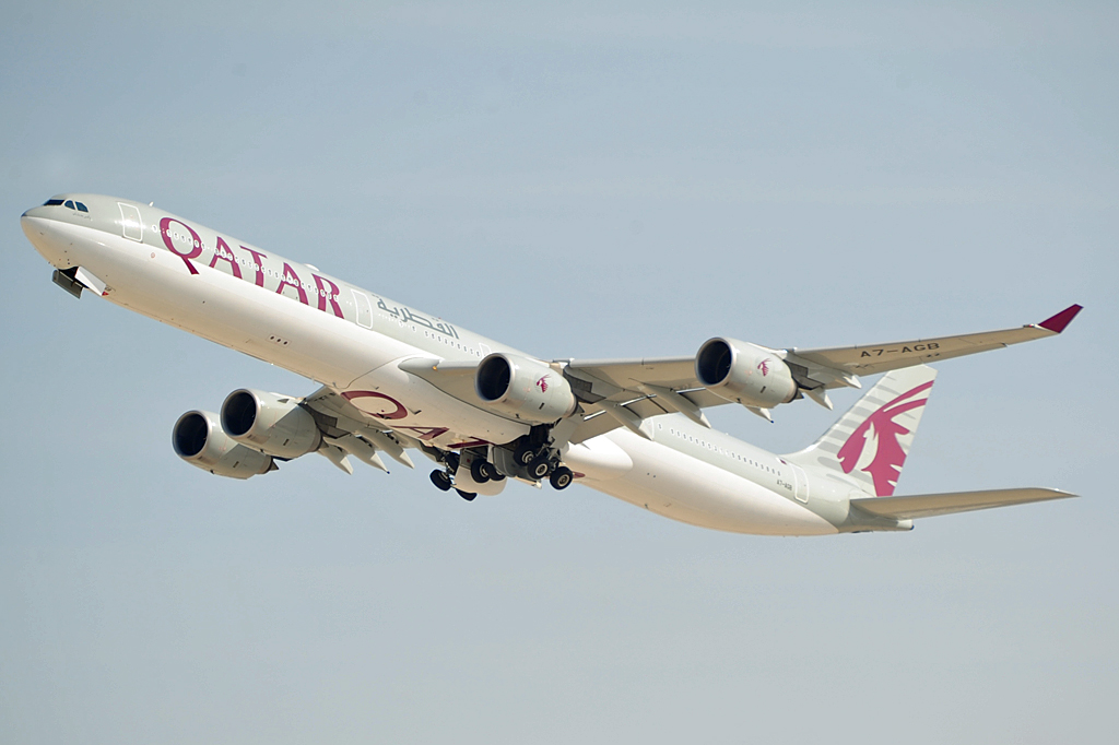 Qatar Airways A340-600 A7-AGB departing from Doha on January 5, 2012.